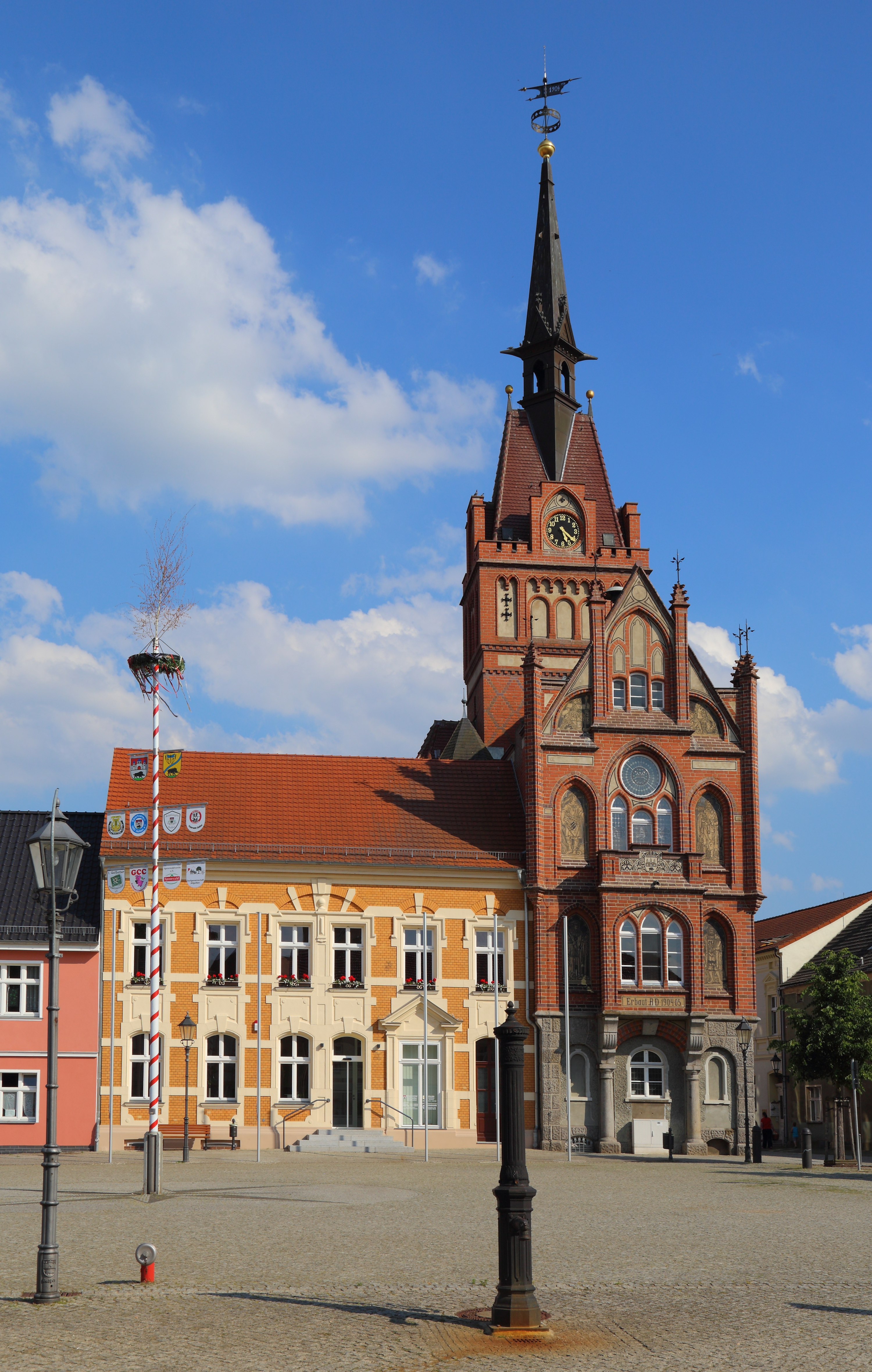 The Town Hall of Golßen, Landkreis Dahme-Spreewald, Brandenburg, Germany.